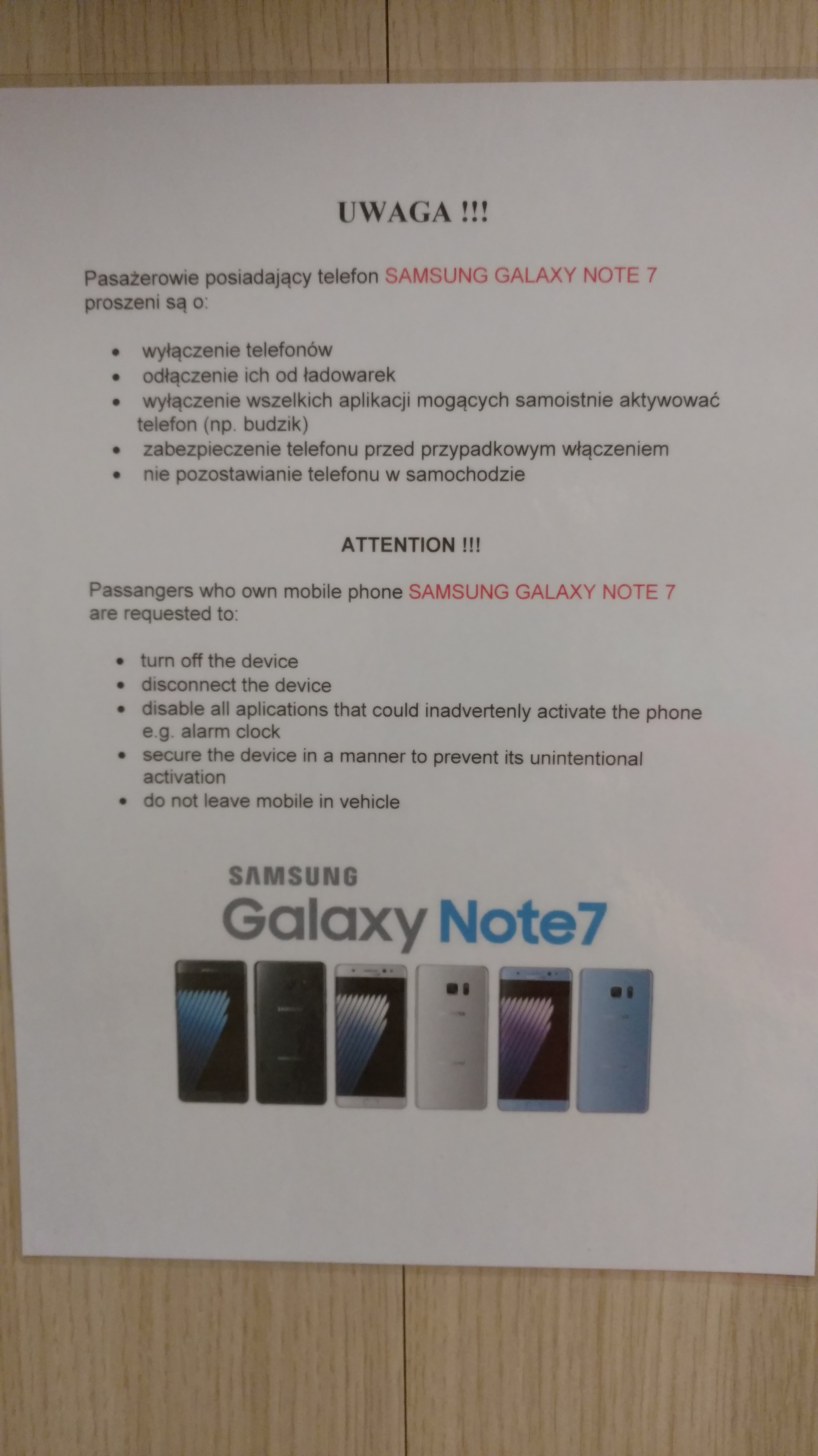 information for owners of Samsung galaxy note 7 sailing from Poland to Sweden on ferry